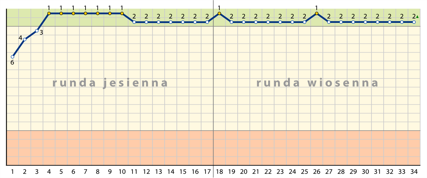 Graph showing performance of Podbeskidzie Bielsko-Biała in 2010–11 Polish First League season.